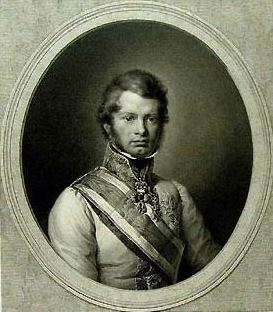 Leopold II, Grand Duke of Tuscany